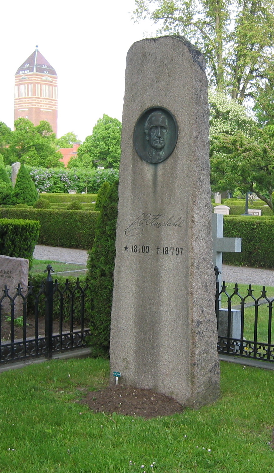 Grave of Charles Emil Hagdahl, Swedish physician and writer of a famous cookbook, in Linköping.